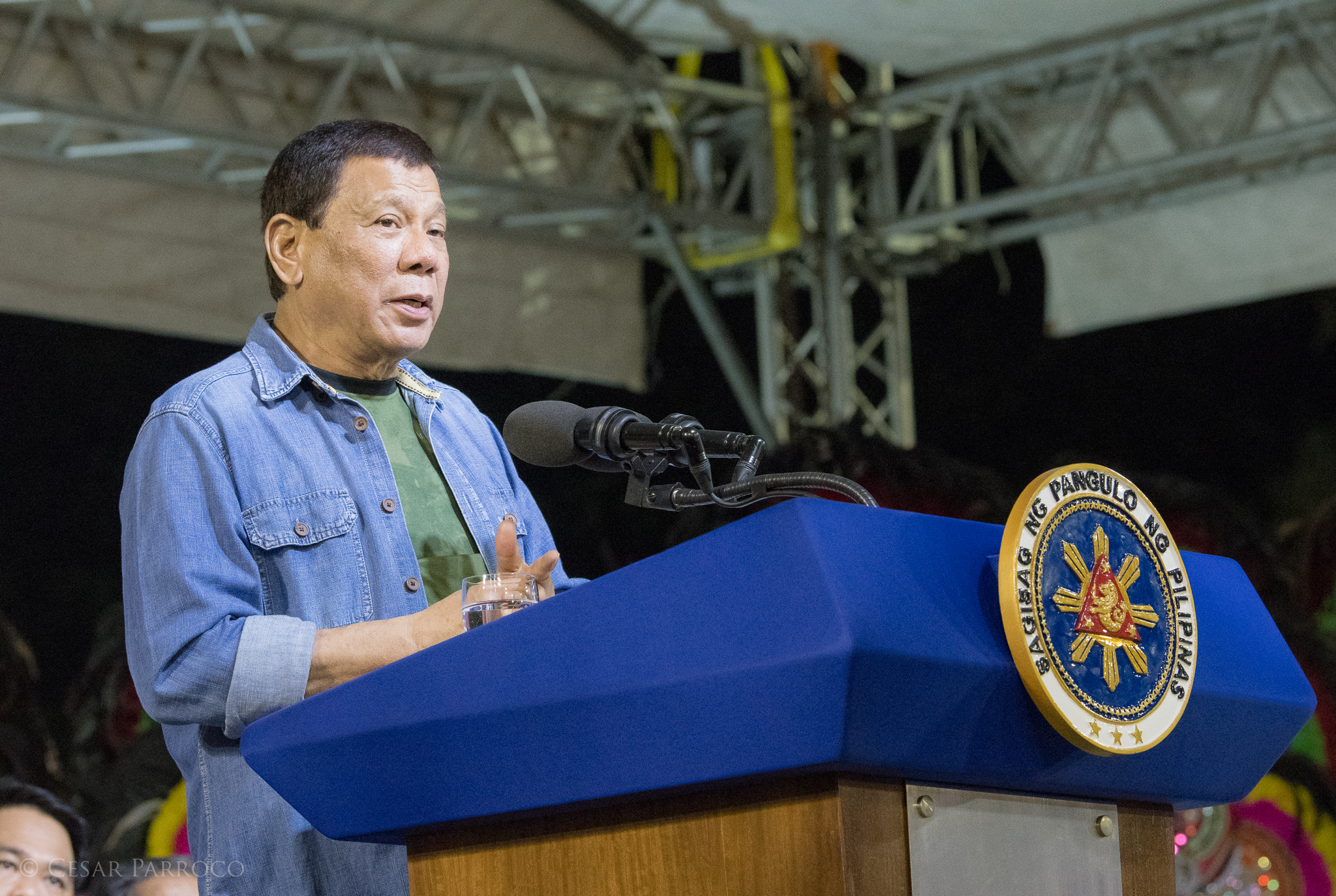 Philippine President during his visit to the City of Bacolod for the Masskara Festival 2017